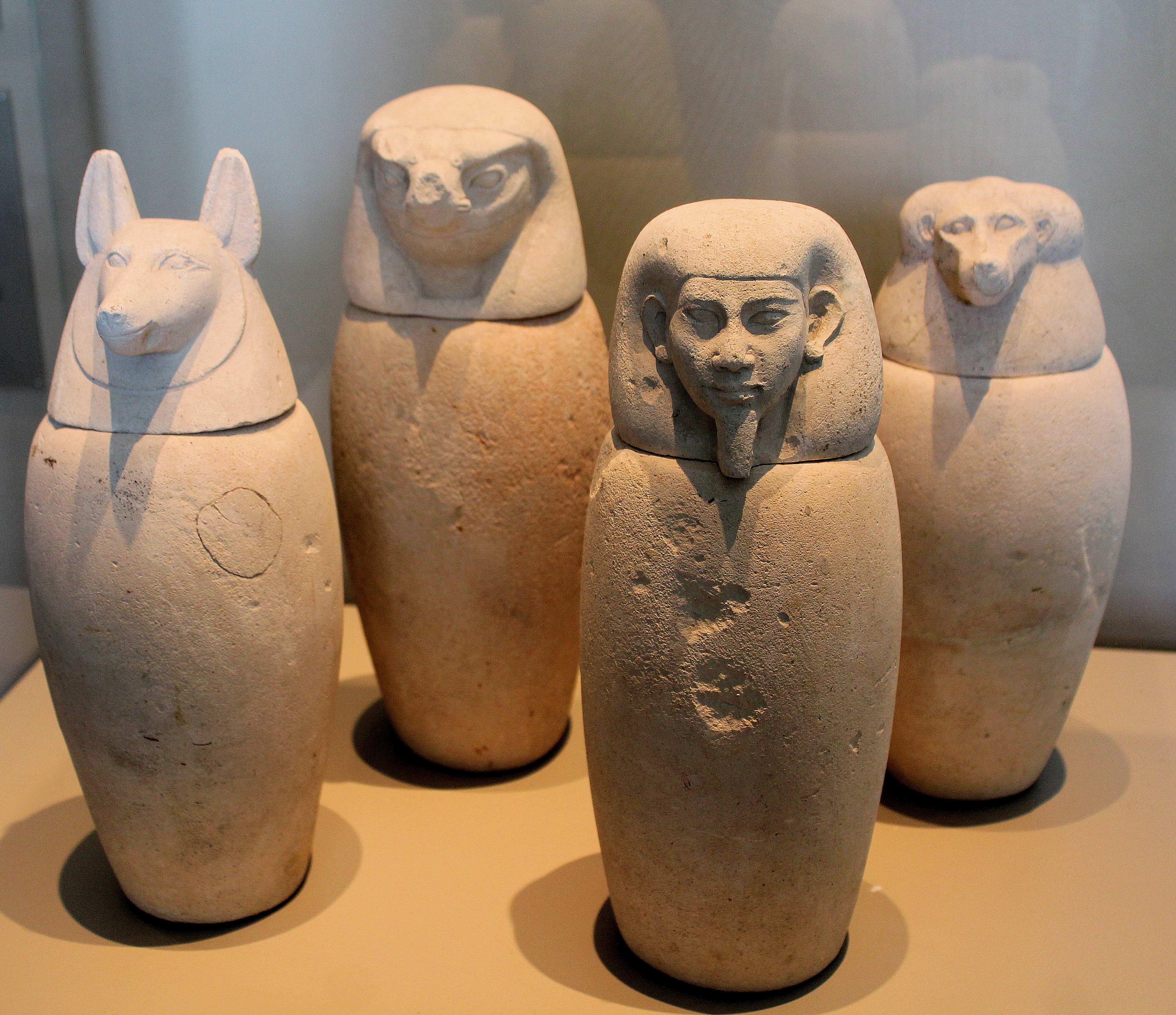 Hildesheim, Roemer- and Pelizaeus-Museum, canopic jars of the sons of Horus